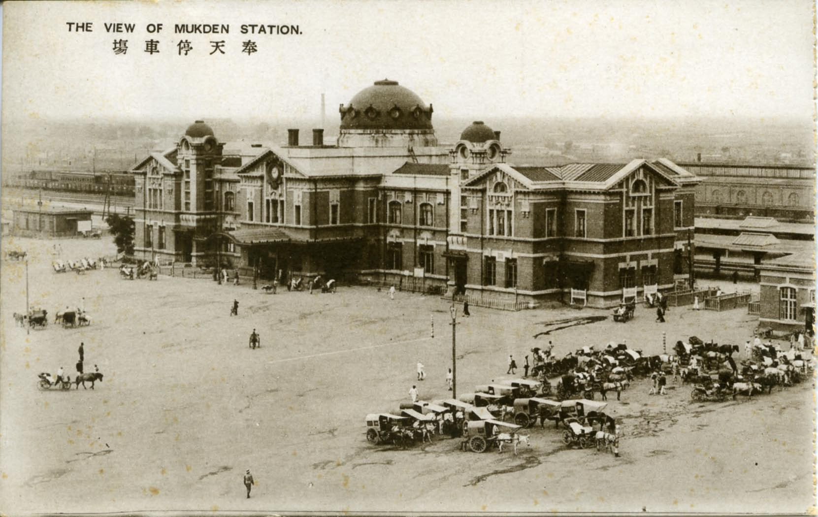 THE VIEW OF MUKDEN STATION.